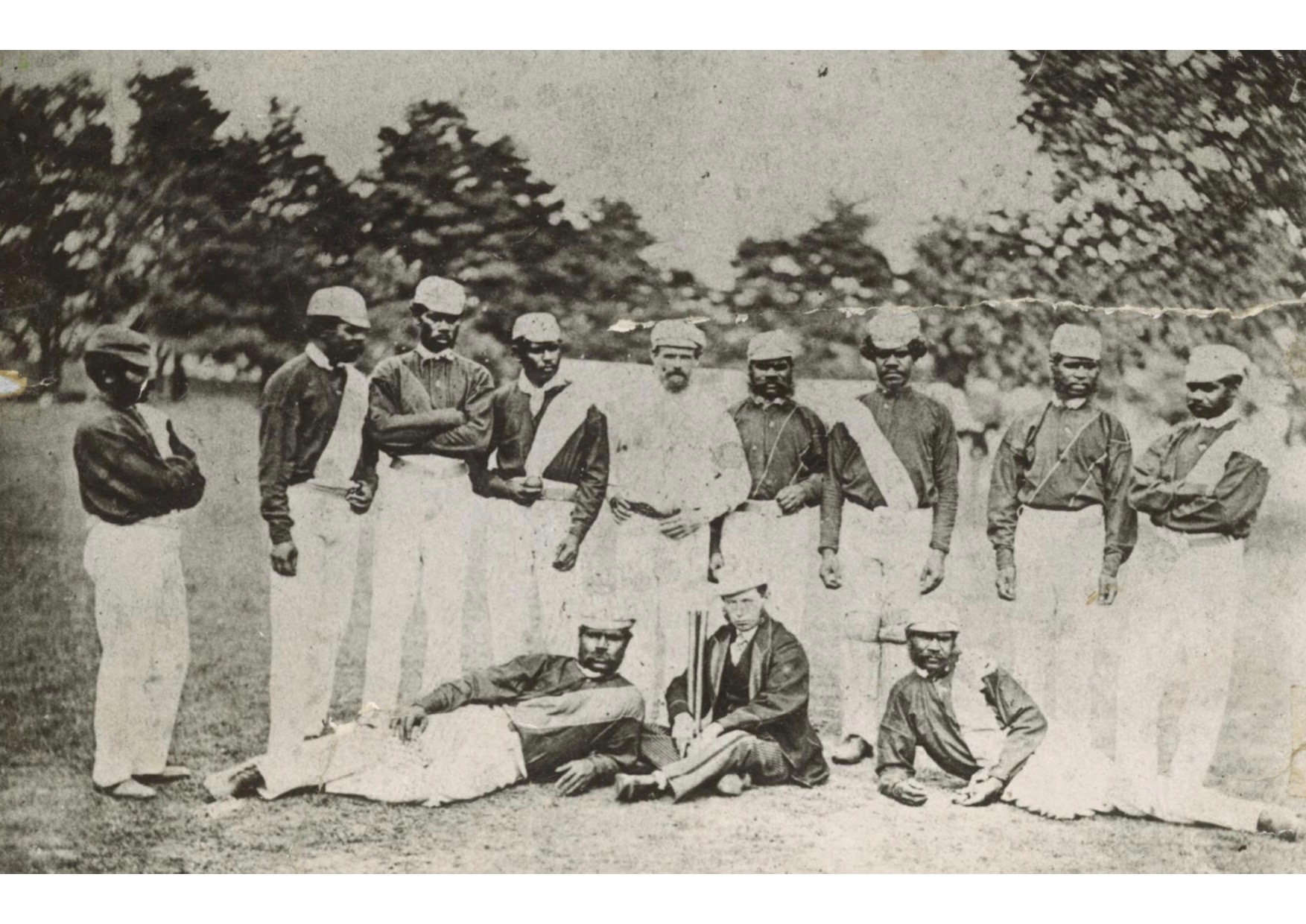 1868 First Australian X1 cricket team touring England